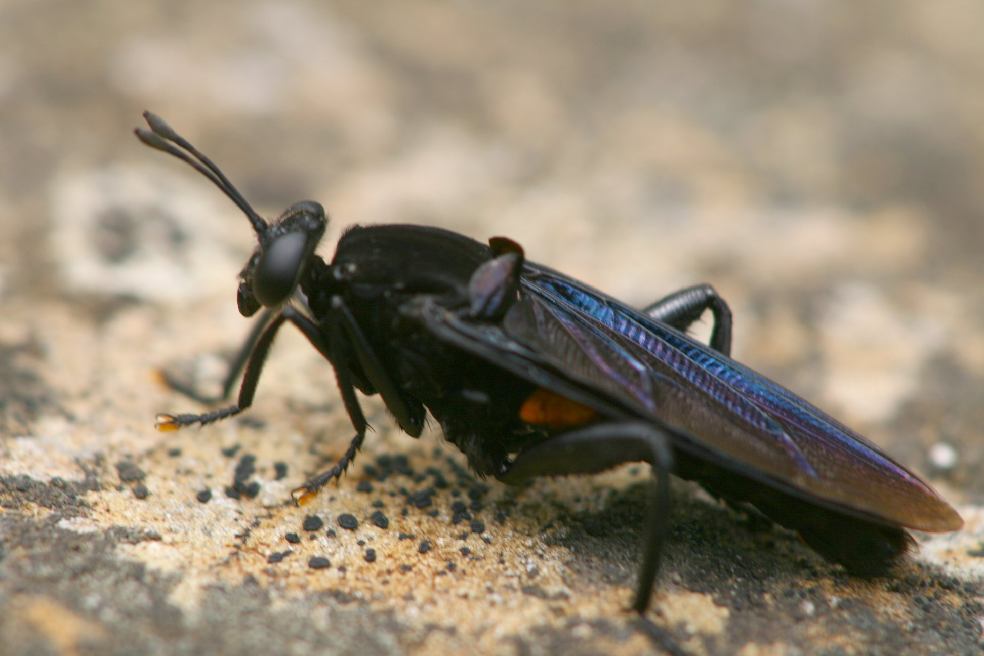 This is the first record for the species at Frozen Head Natural Area. It was first observed on 26 June, 2007 flying around the native plant garden at the visitor center and resting on the sandstone. Taxonomy: Kingdom: Animalia Phylum: Arthropoda Subphylum: Hexapoda Class: Insecta Subclass: Pterygota Infraclass: Neoptera Order: Diptera Suborder: Brachycera Infraorder: Muscomorpha Family: Mydidae Subfamily: Mydinae Tribe: Mydini Genus: Mydas Species: Mydas clavatus (Drury, 1773) Source: Integrated Taxonomic Information System (ITIS)